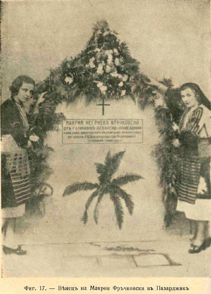 Makriy Negriev's Tomb